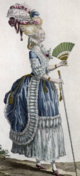 Cul de Paris of c. 1775